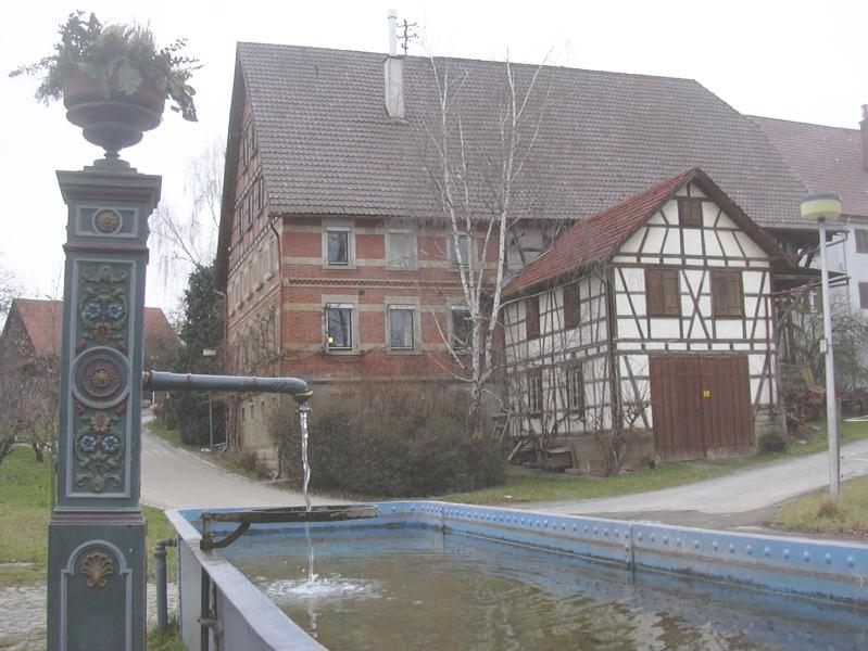 well and farm in the hamlet of Siegelhausen (near Marbach am Neckar, Germany)